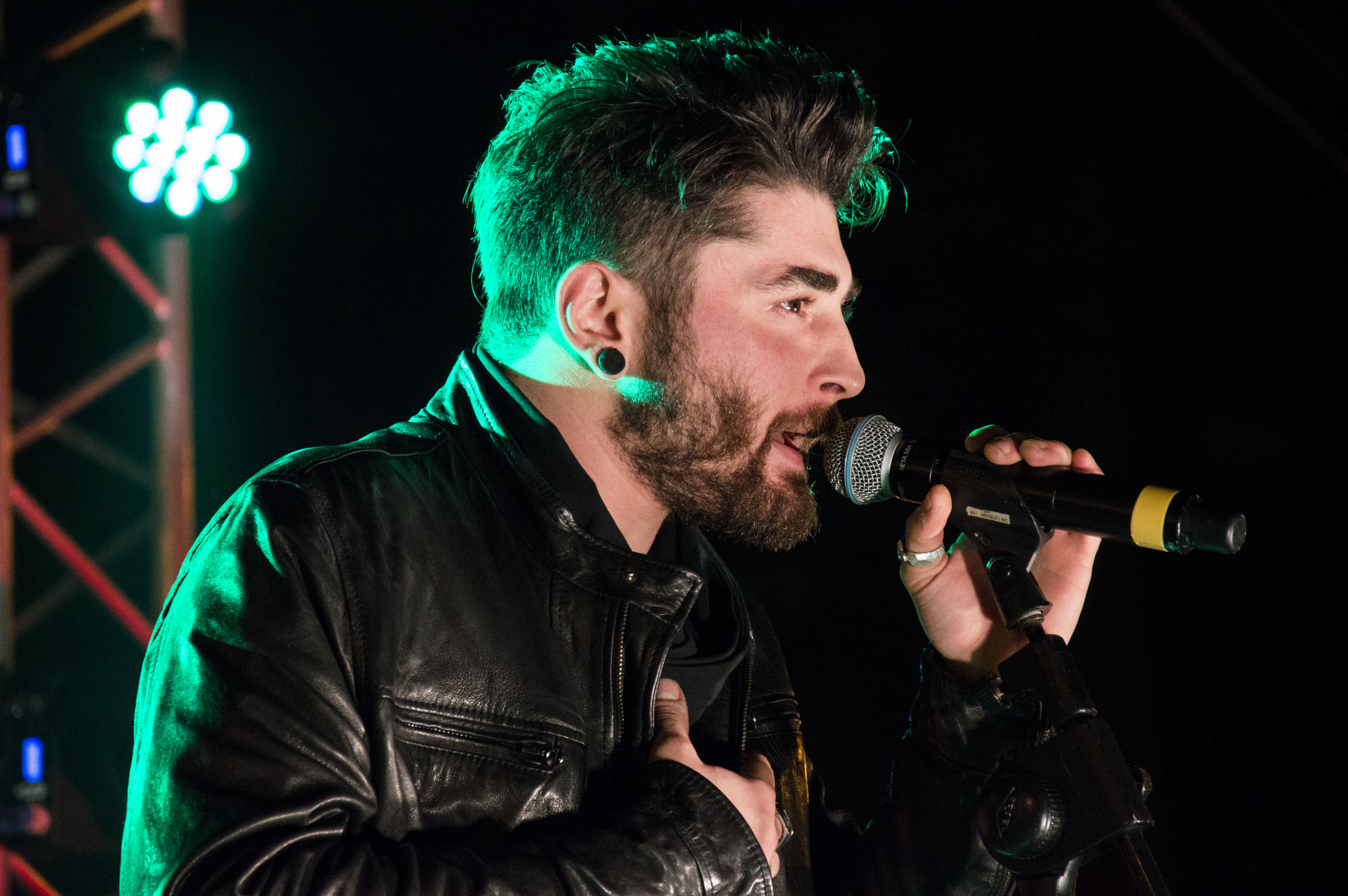 Singer Giosada live from Bari, Italy